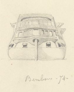 HMS Benbow (detail) Study of HMS 'Benbow' and other vessels in Portsmouth Harbour, 1826 RMG PZ0910. Study of HMS 'Benbow' and other vessels in Portsmouth Harbour. HMS 'Benbow', 72-guns, was launched at Rotherhithe on the 3 February 1813.